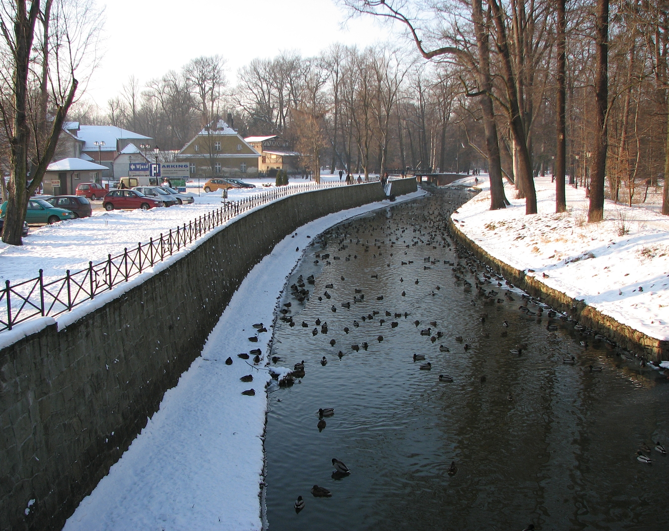 Pszczynka, river